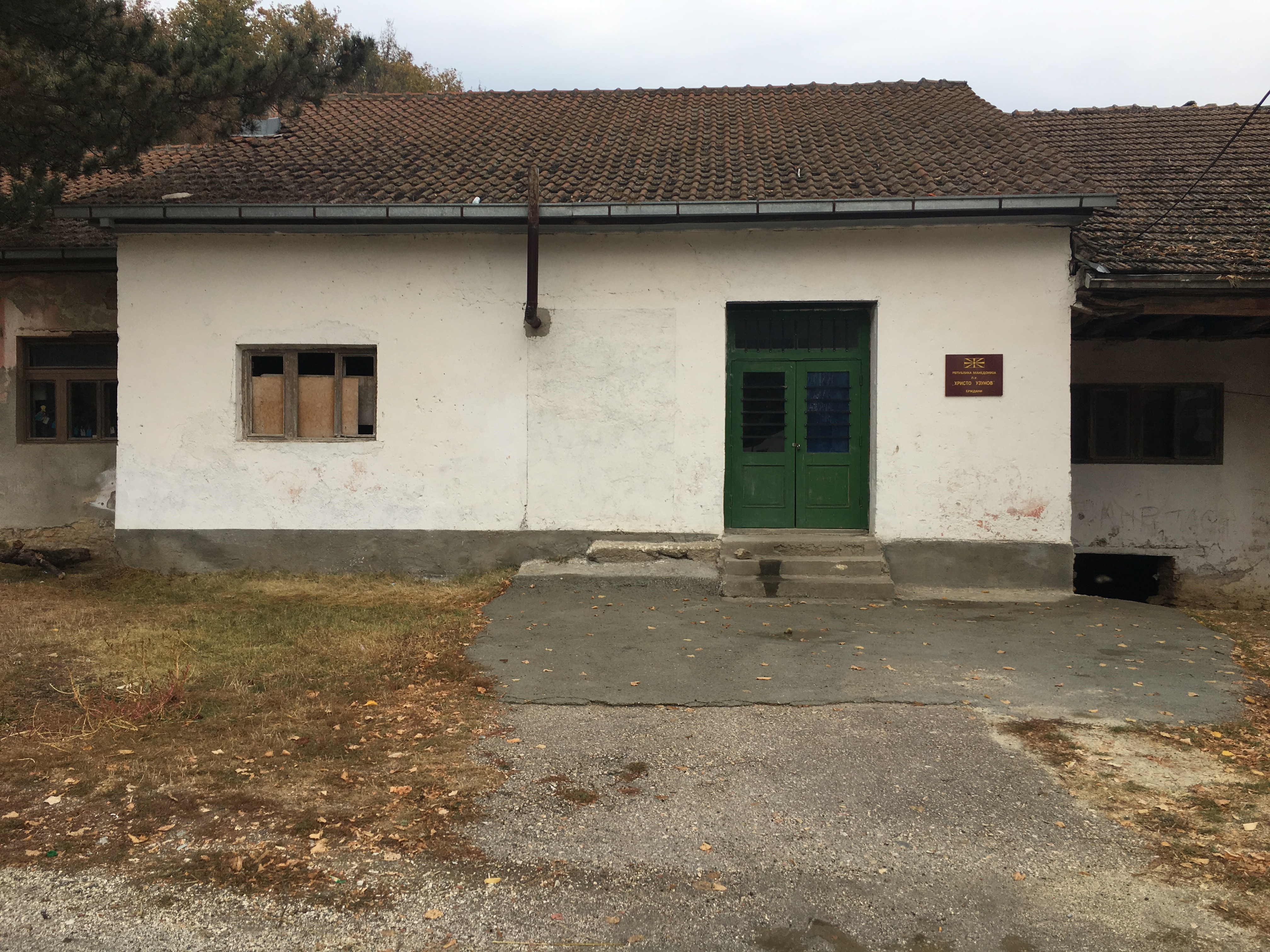 Wikiexpedition to Kopačka